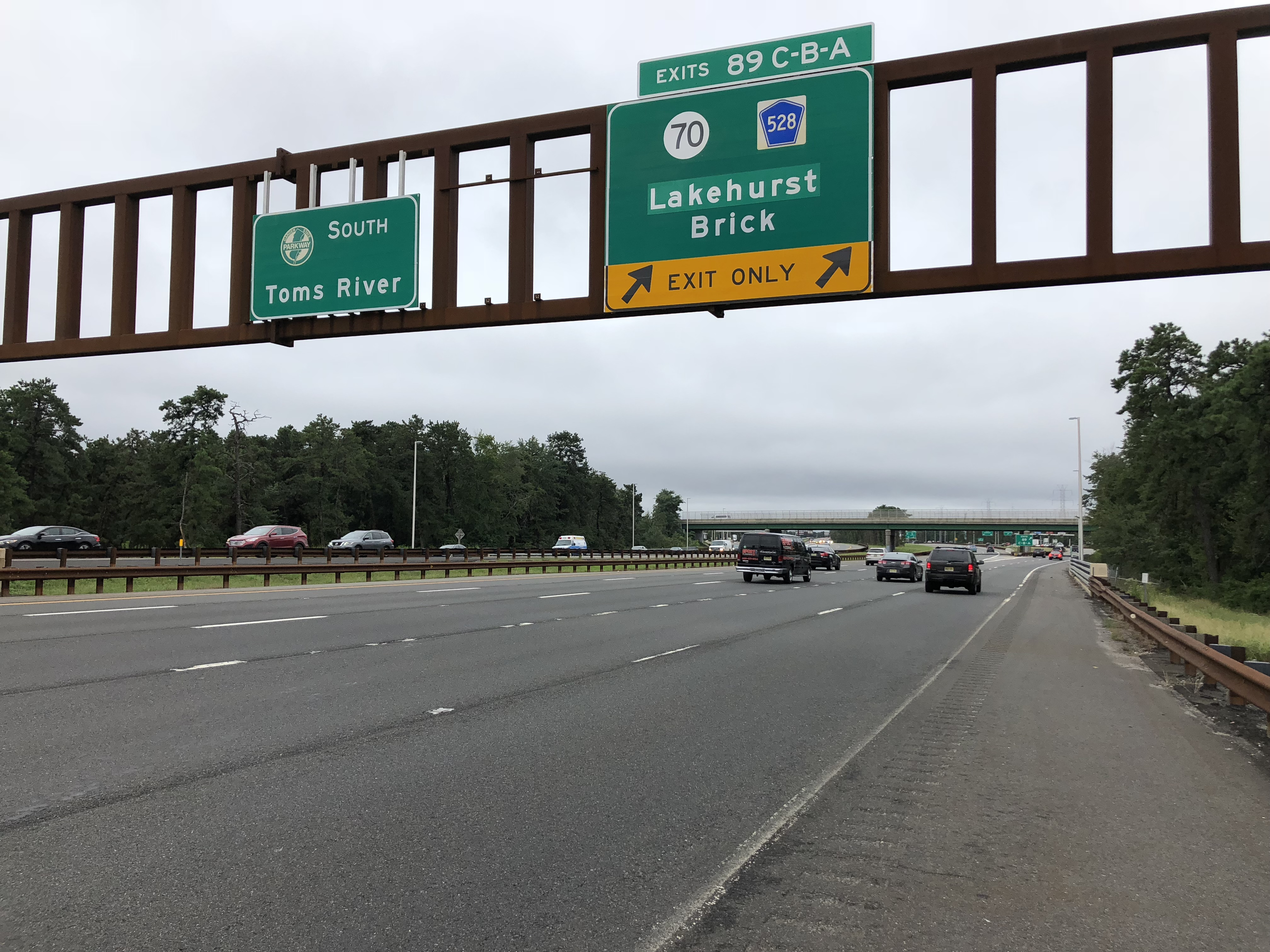 View south along New Jersey State Route 444 (Garden State Parkway) at Exit 89 (New Jersey State Route 70, Ocean County Route 528, Lakehurst, Brick) in Lakewood Township, Ocean County, New Jersey